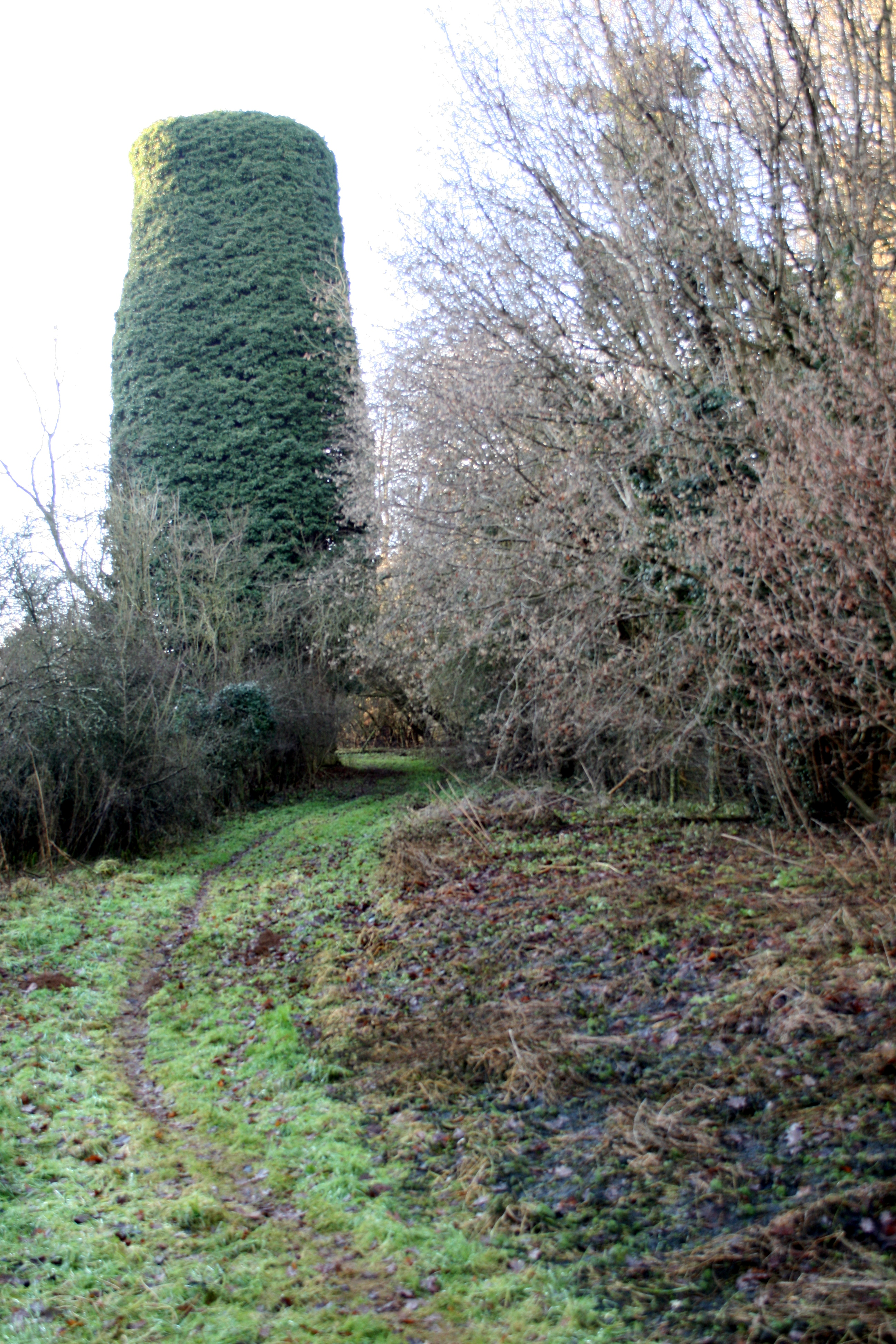 Formation of the Hook Norton Ironstone Partnership standandard gauge railway line passing under the Banbury and Cheltenham Railway viaduct